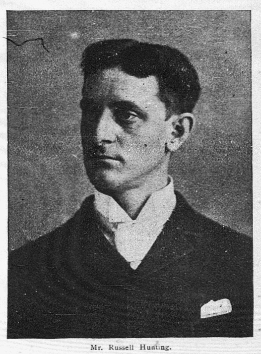 1892 portrait of pioneer recording artist (and executive) Russell Hunting.